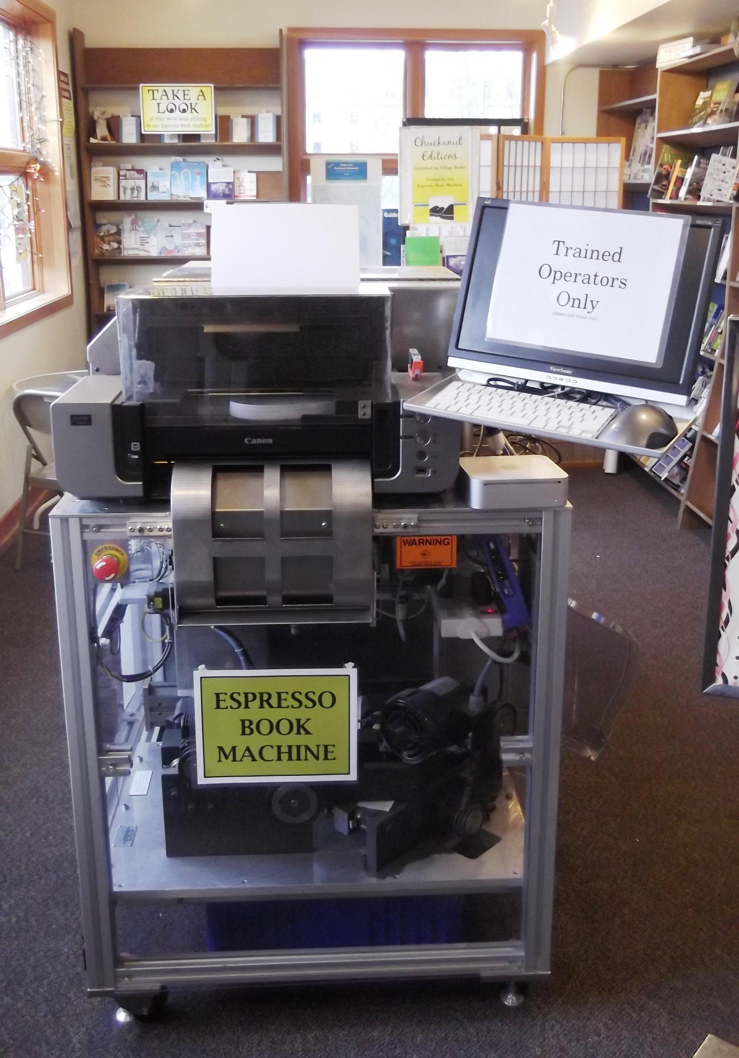 Village Books is a very fine bookshop in the Fairhaven district of Bellingham, Washington. s010113 043